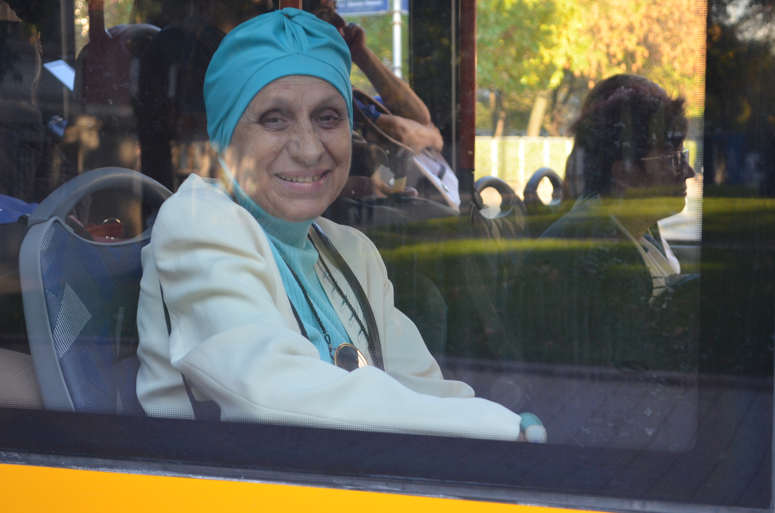 Bulgarian poet, translator and publisher Rada Panchovska in Sofia, 17 October 2019